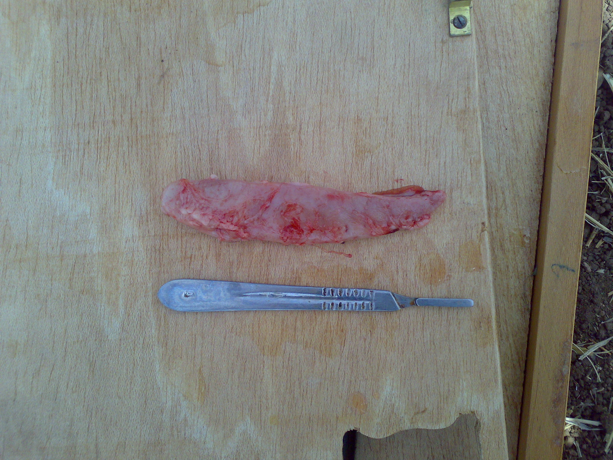 PM lesions on Peste des Petits Ruminants : fairly enlarged Thymus Walon: Damadjes divintrins del Pesse des bedots et des gades: groxhixhmint do timusse (sacwants côps si grandeur normåle).